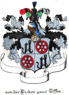 Coat of arms family von der Decken-Offen